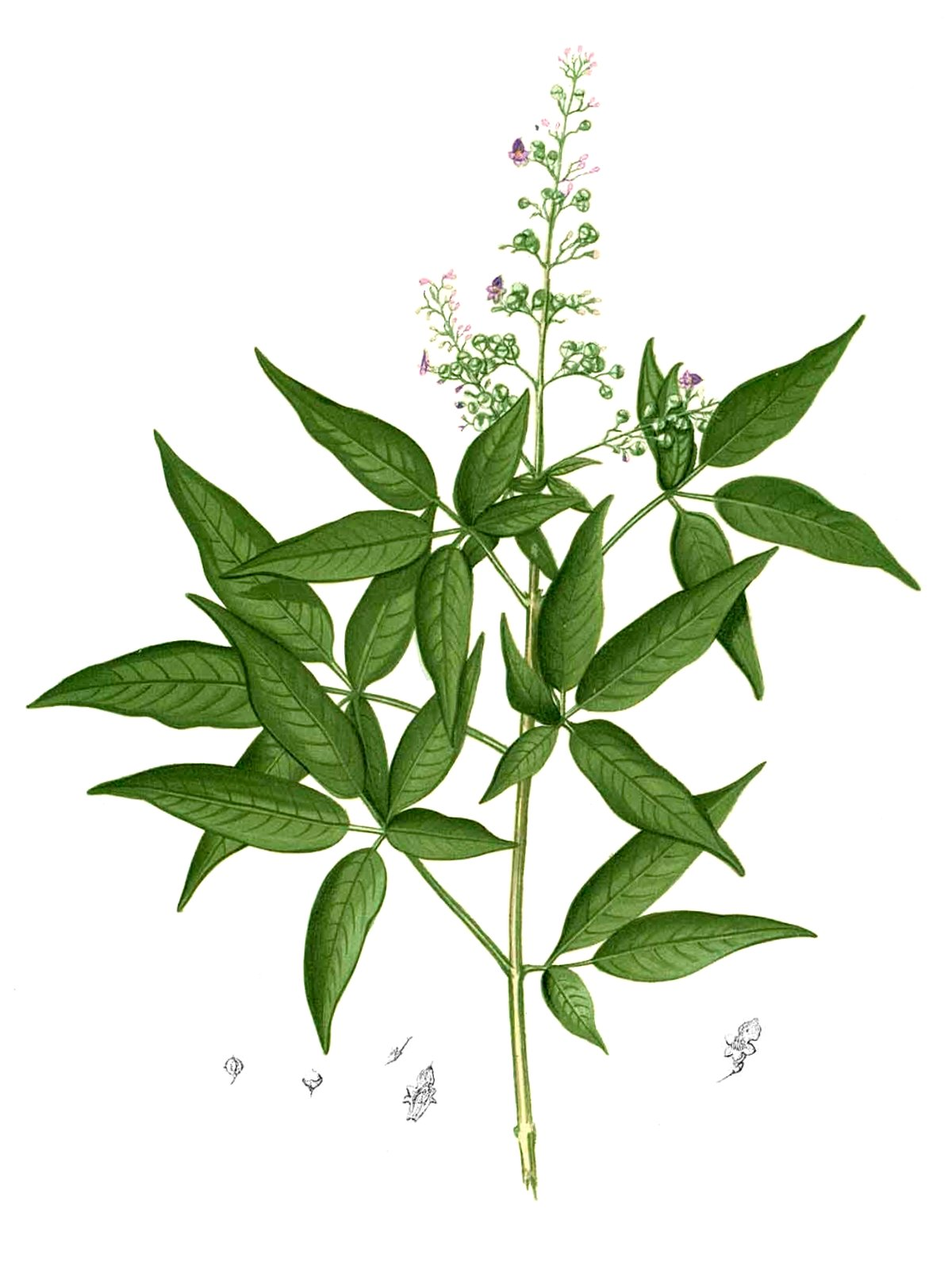 Plate from book